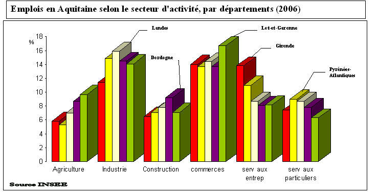 Jobs in Aquitaine by activities and by departments (2006)